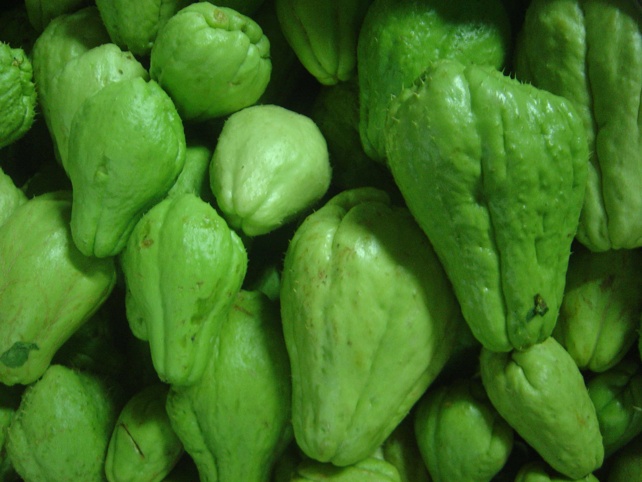 Sechium edule on sale, Réunion Island